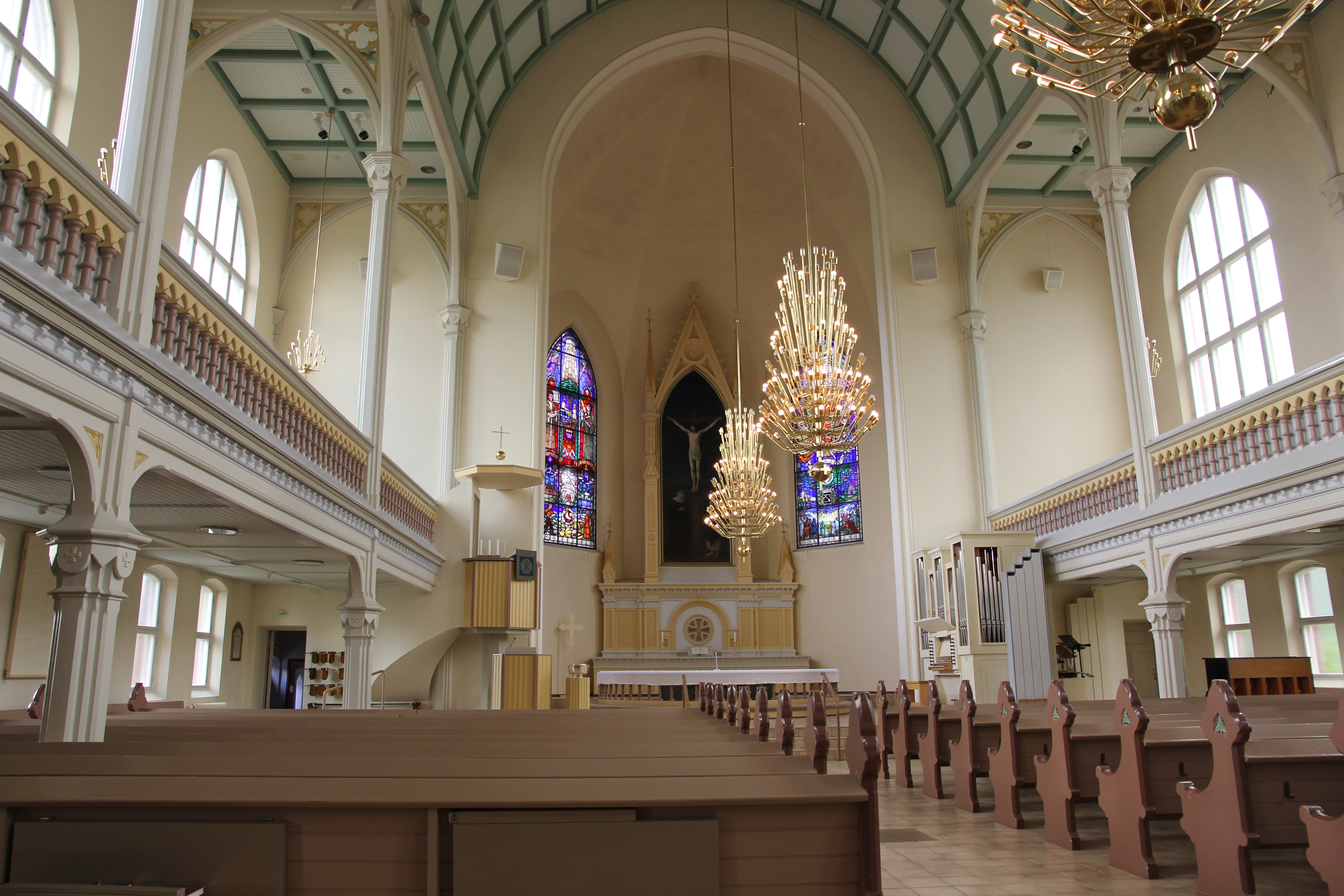 Interior of Mikkeli cathedral. Altar painting Jeesus ristillä by Pekka Halonen (1865–1933), stained glass windows by Antti Salmenlinna (1897-1968).